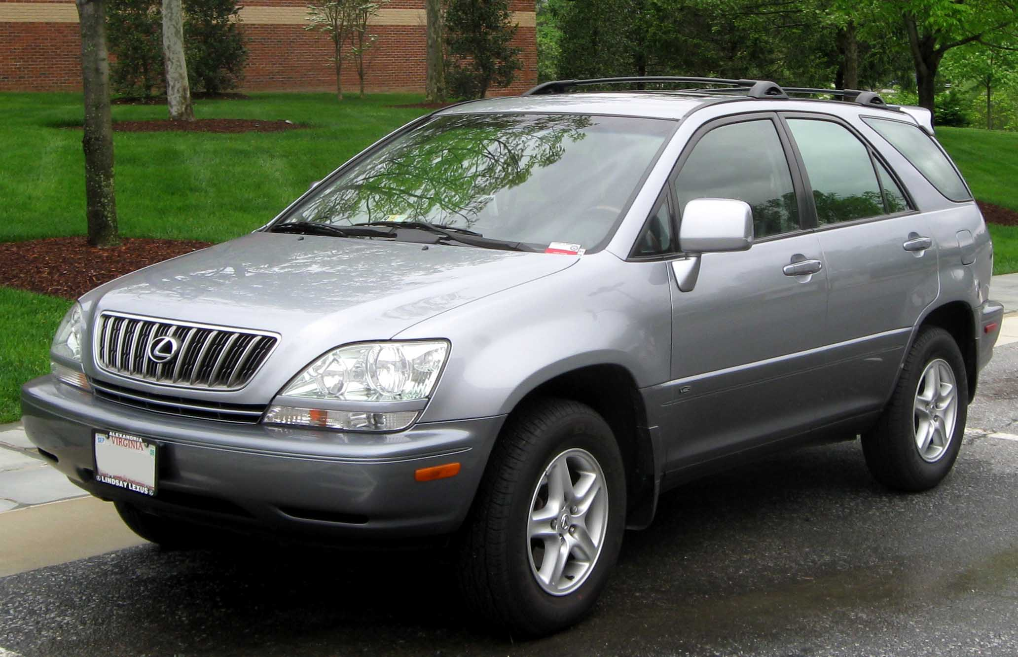 2001-2003 Lexus RX300 photographed in College Park, Maryland, USA.